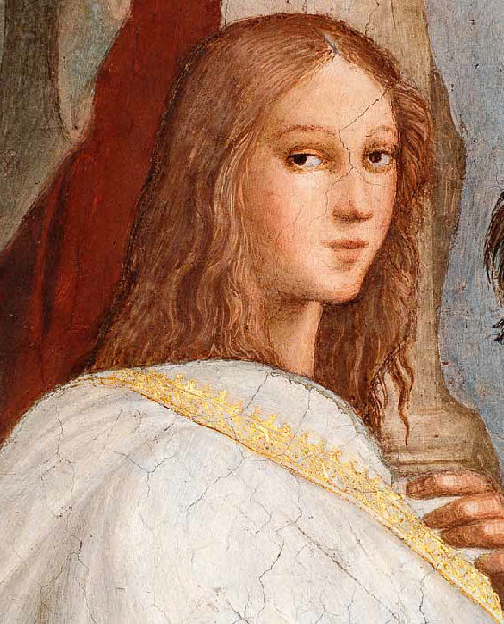 Detail from The School of Athens by Raffaello Sanzio. It may be a portrait of Francesco Maria della Rovere, or possibly the philosopher Pico della Mirandola. Although some modern hypotheses have identified the subject as Hypatia, the consensus of scholars [1] [2] is that the subject is male and that Hypatia was not depicted.